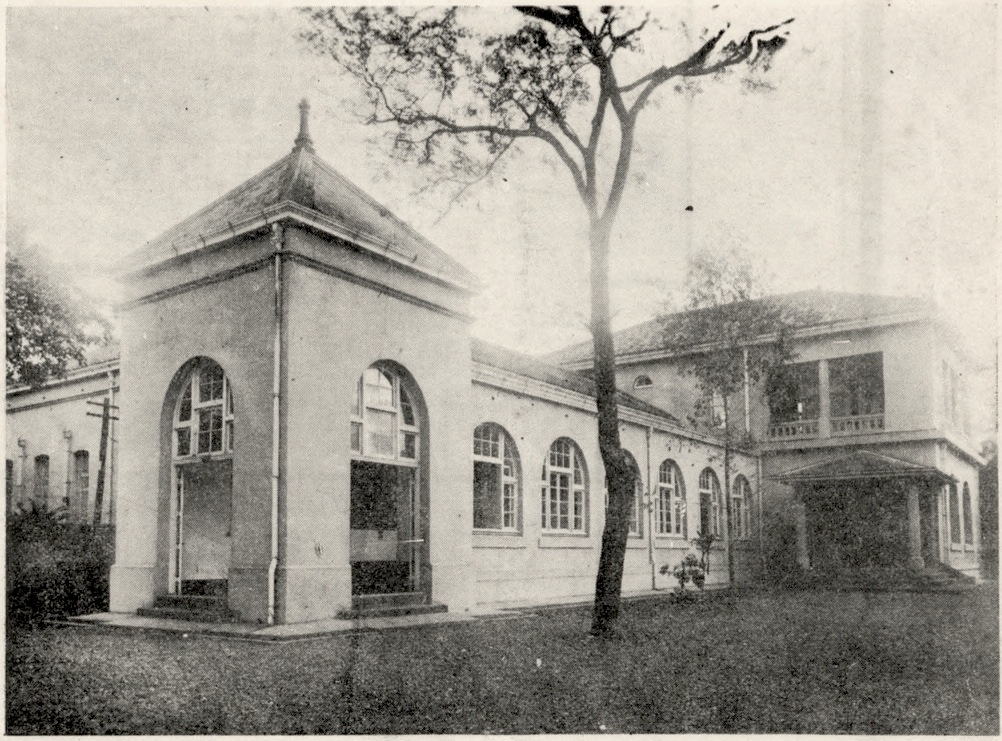 文山郡役所 Bunsan-gun yakusho，位於現今的新北市新店區。